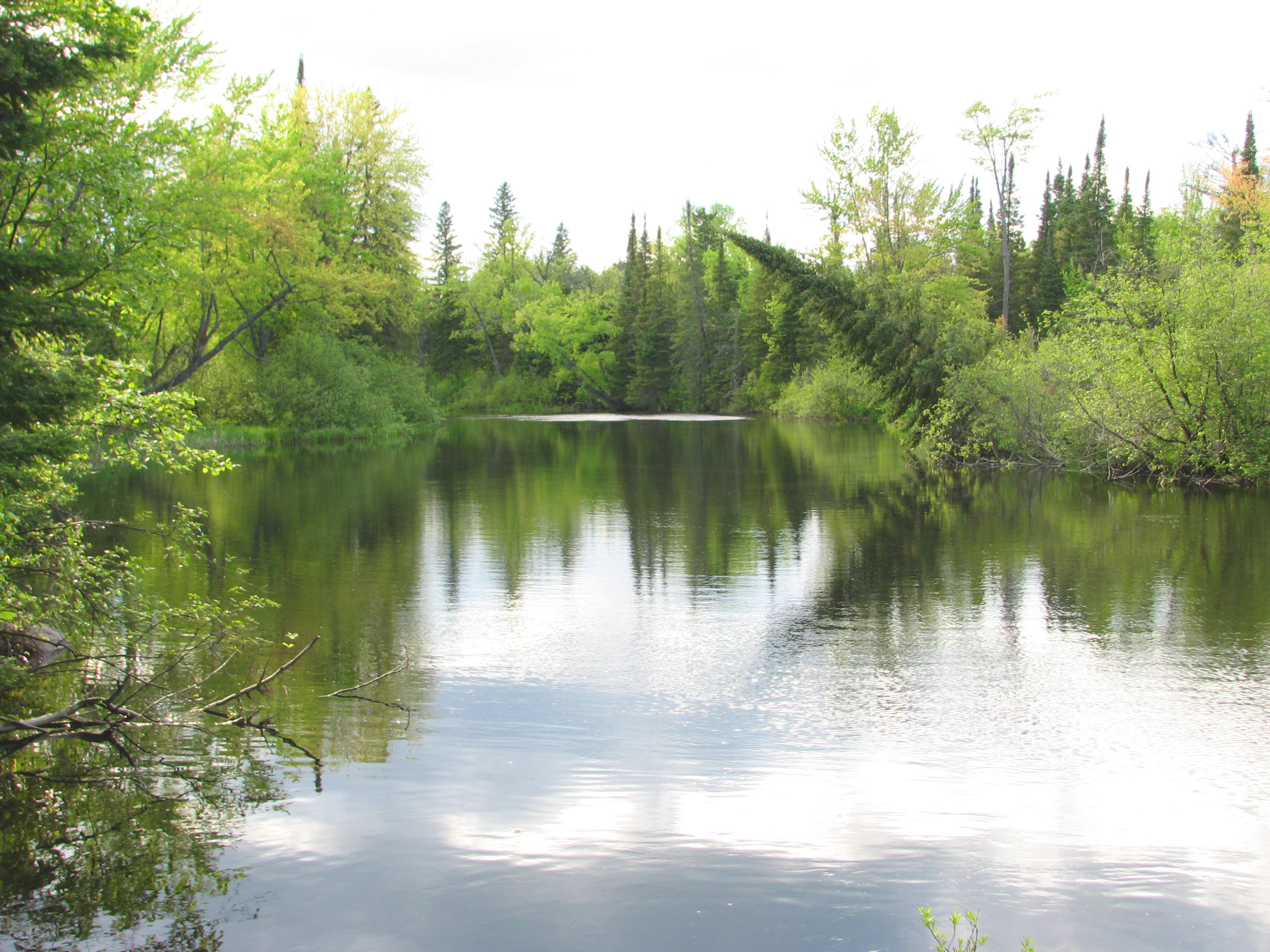 Bonnechere River, through Bonnechere Provincial Park